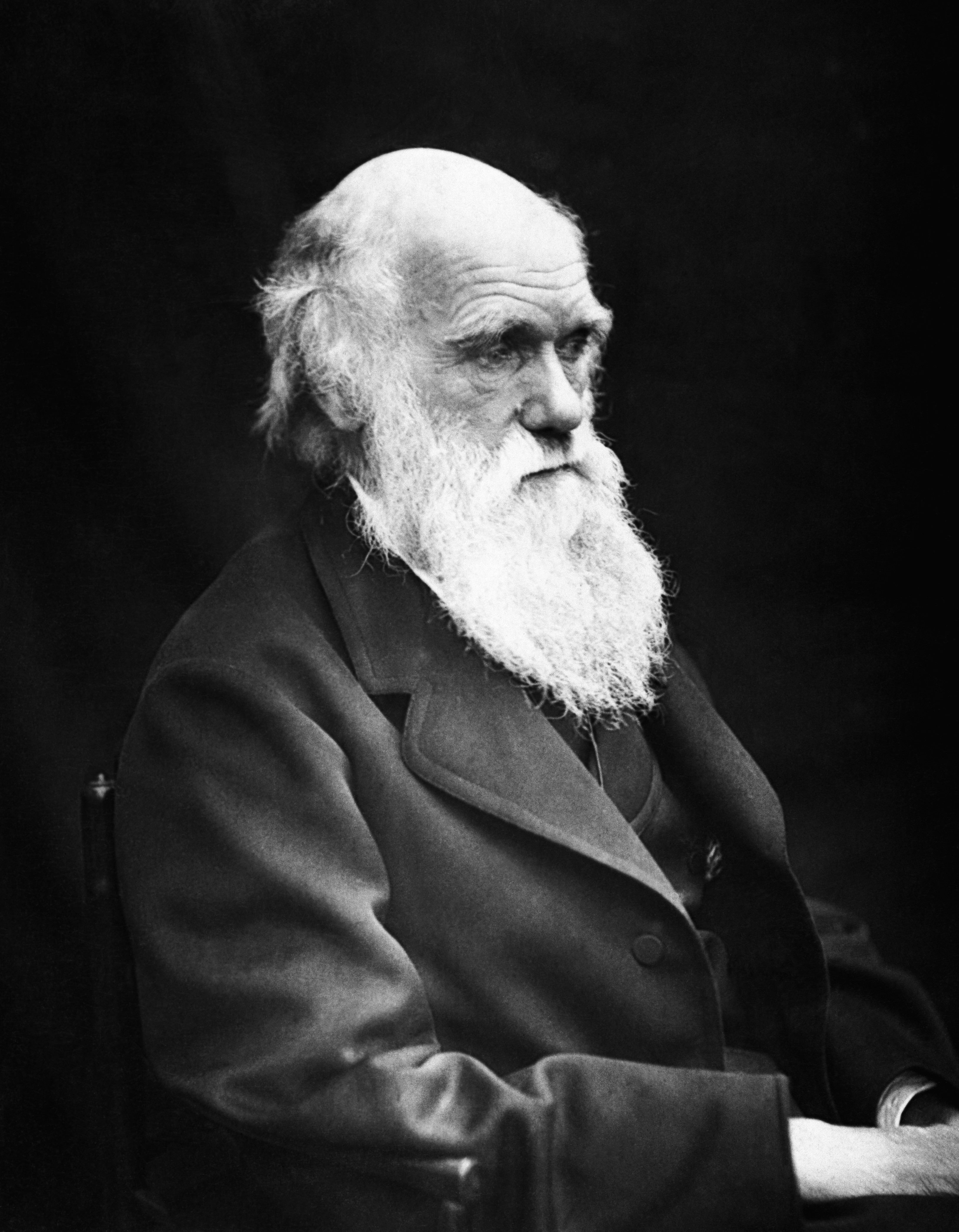 Charles Darwin (1809–1882) in his later years. This image is flipped. Darwin's mole was on the right side of his nose.